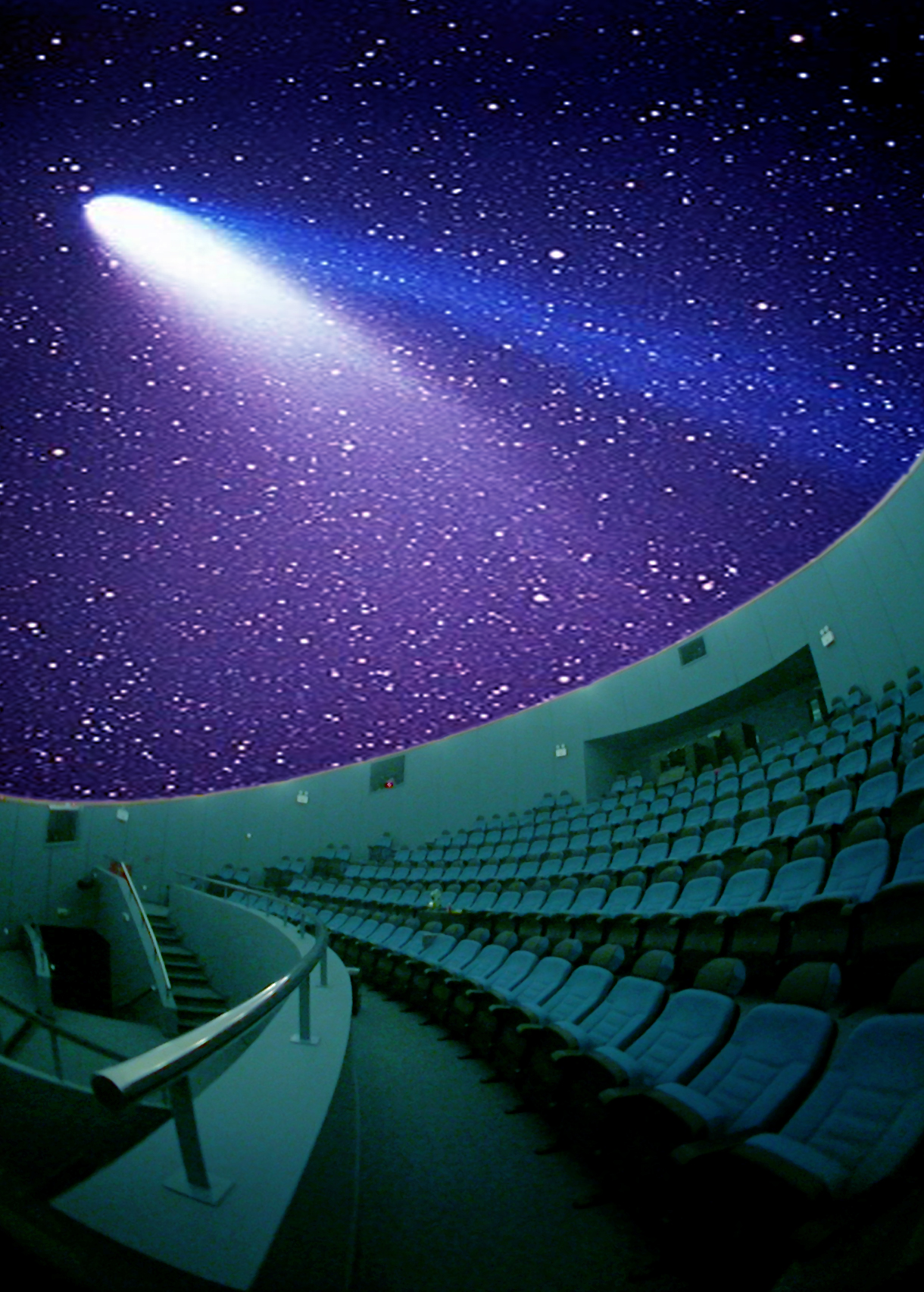 The Planetarium at NOESIS, dome diameter 18m, 160 seats.